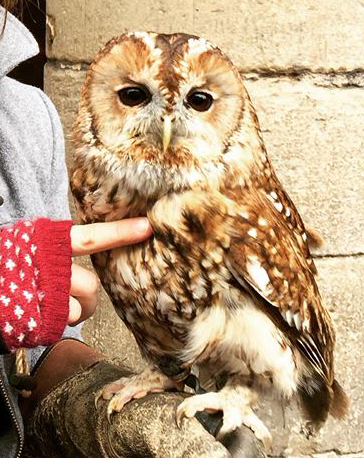 Tawny Owl being pointed at by be-gloved human